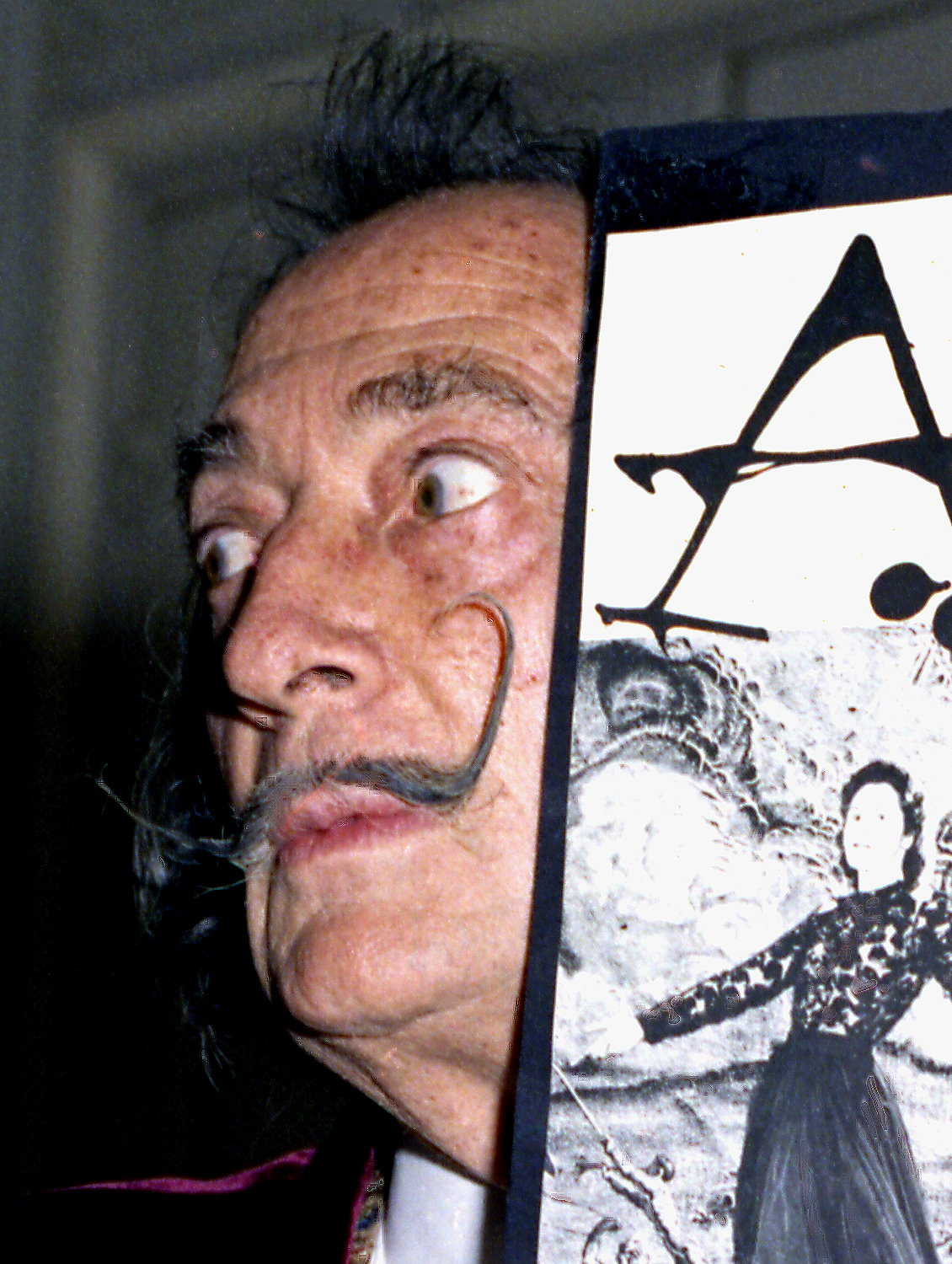 Close up of Salvador Dalí at the Hôtel Meurice Paris